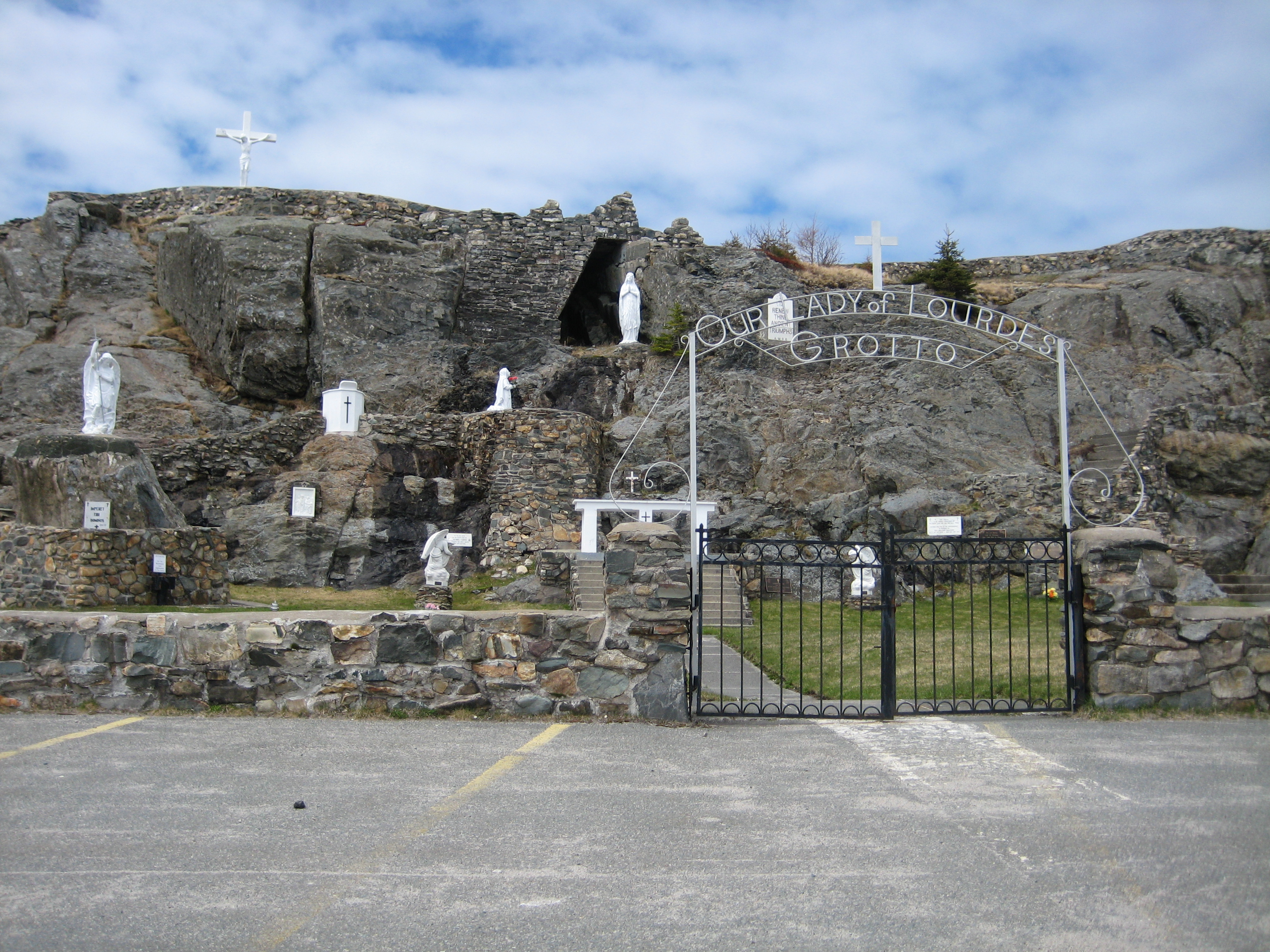 Our Lady of Lourdes Grotto, Flatrock, Newfoundland, Canada